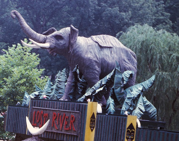 This is the elephant which was placed on top of the station of the Lost River, which was a re-themed version of a PTC Mill Chute.